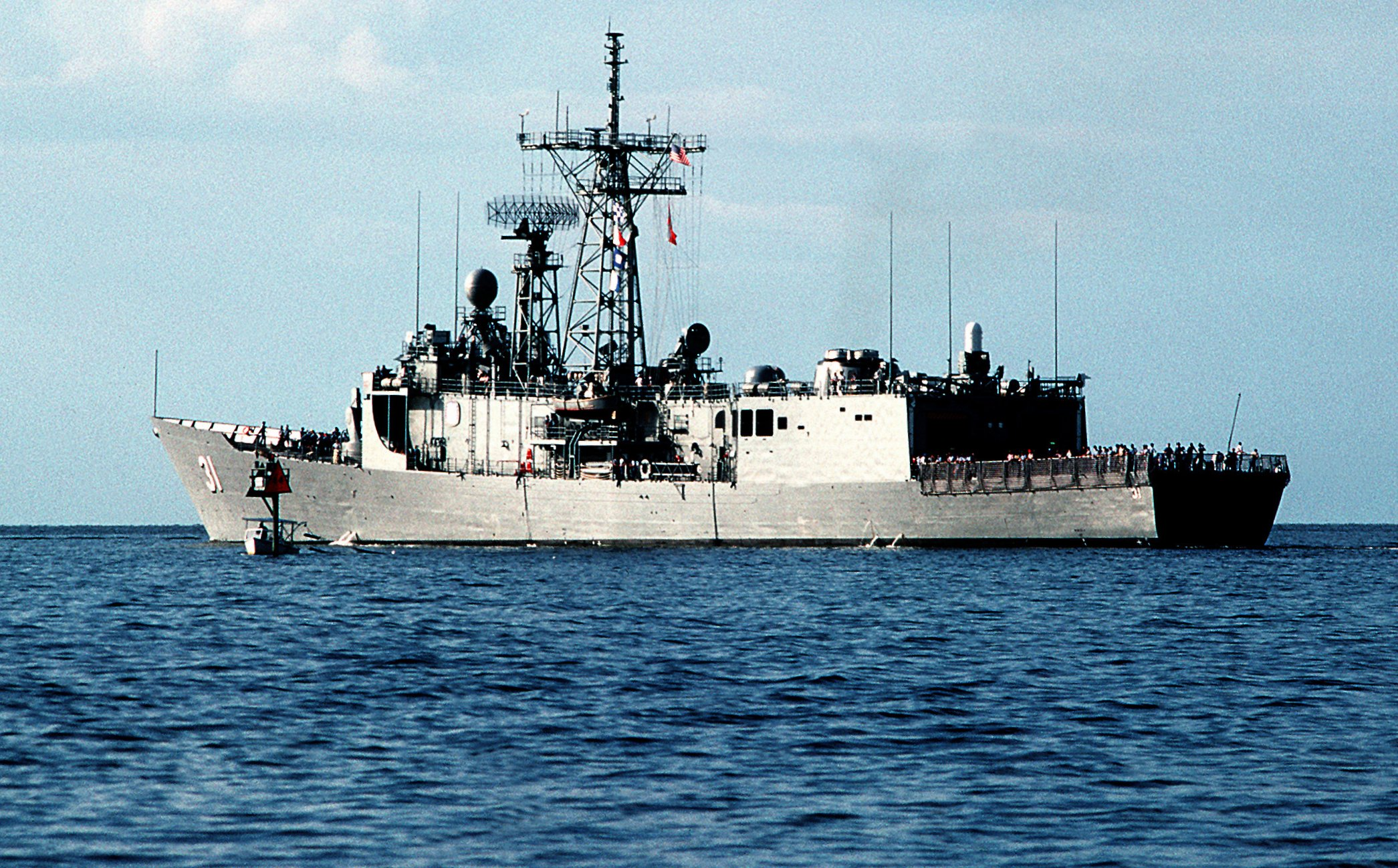 A port quarter view of the U.S. Navy guided missile frigate USS Stark (FFG-31) underway during sea trials after being repaired at Ingalls Shipbuilding, Pascagoula, Mississippi (USA). The Stark was damaged when struck by two Iraqi-launched Exocet missiles while on patrol in the Persian Gulf.